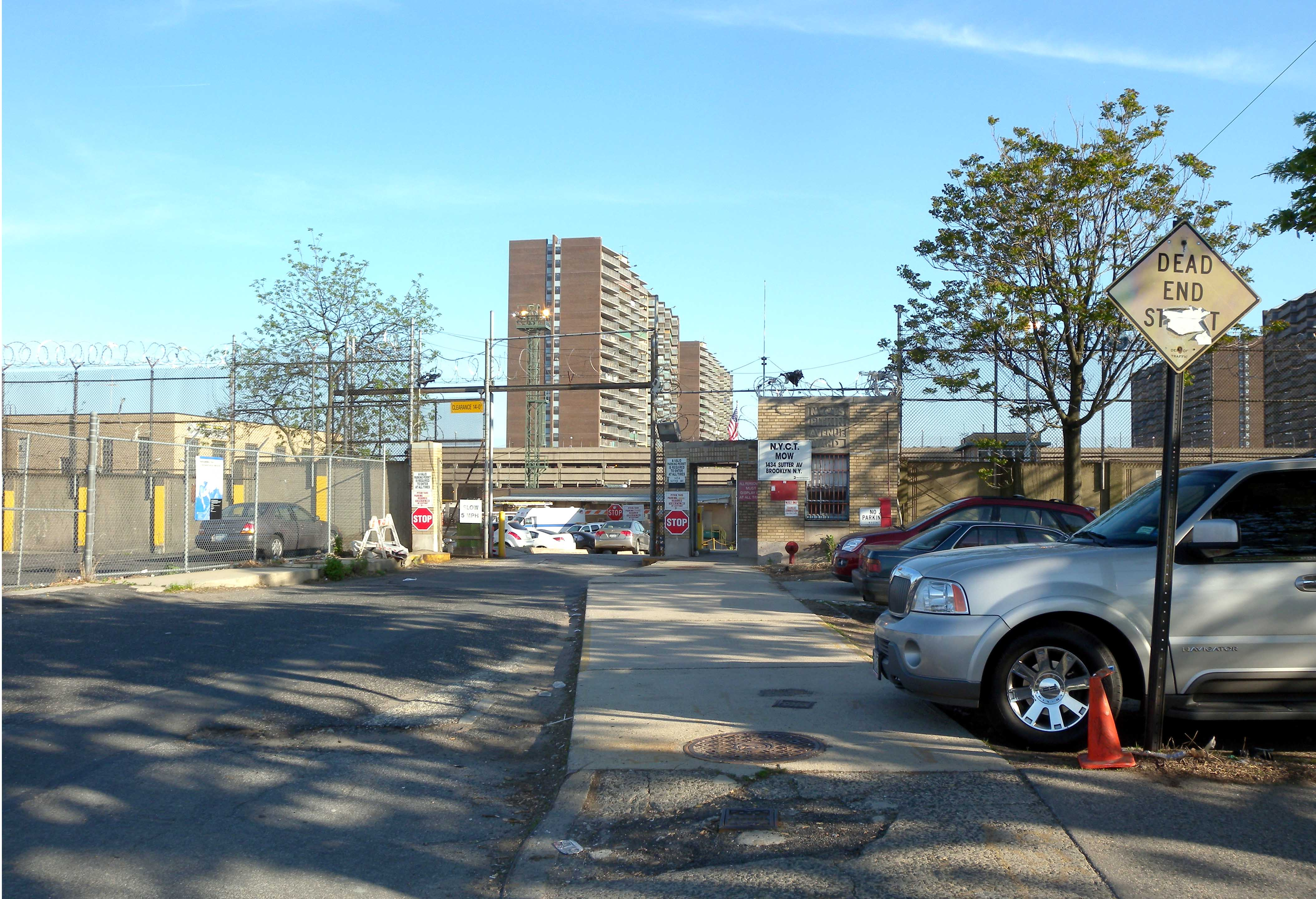 Looking south from Sutter Avenue along Grant Avenue at Pitkin Yard street gate on a sunny afternoon.